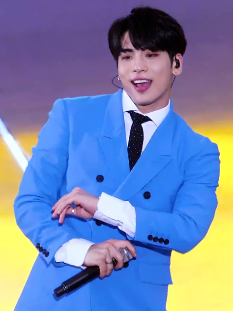 Kim Jong-hyun performing "Déjà-Boo" at SMTown Live on July 8, 2017.